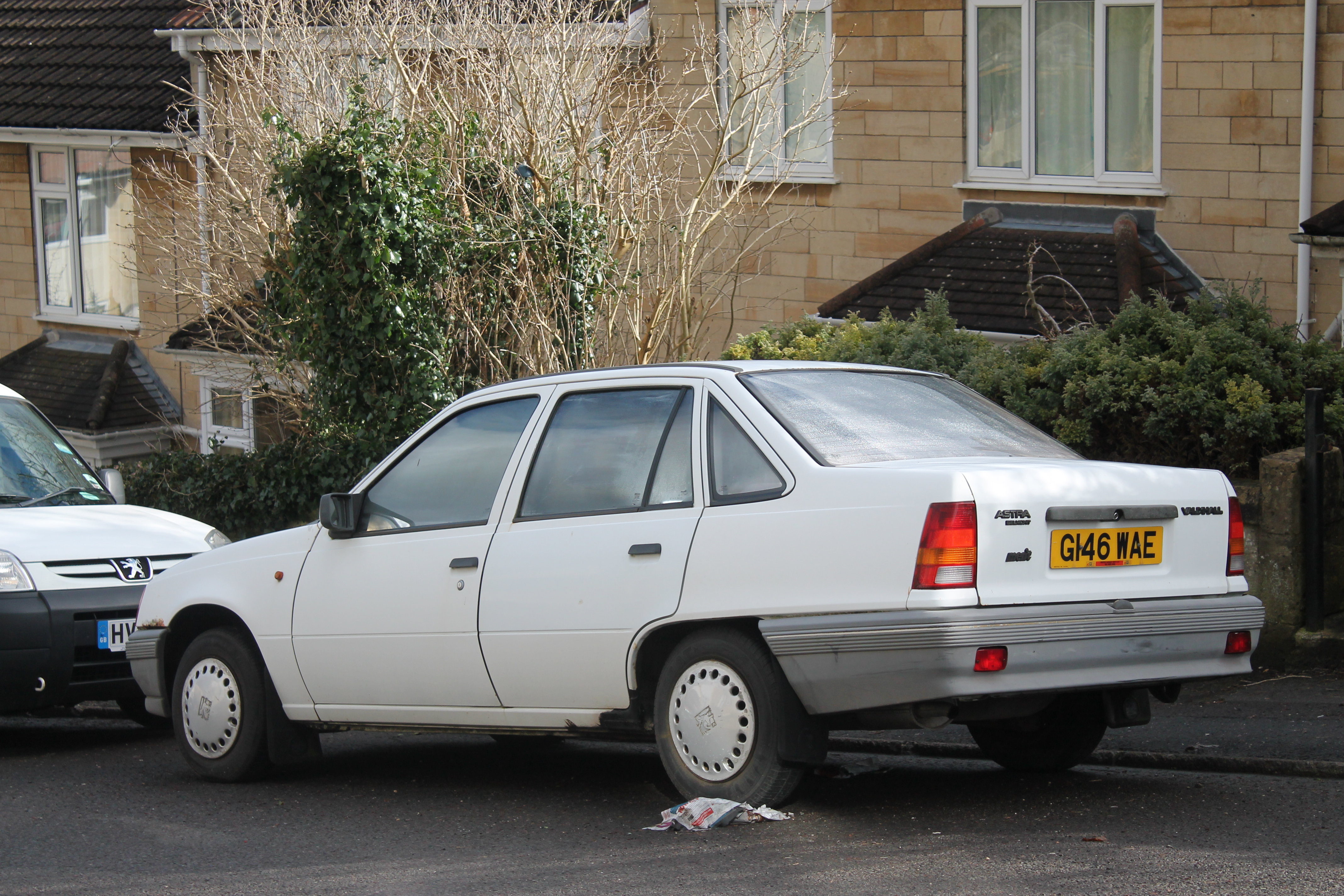 A real treat to see an example of Britain's most stolen car, the Vauxhall Astra Belmont. These are really difficult to come by these days, and this one was particularly pleasing being the base "Merit" spec. It actually looked well looked after, with just a little rust, and was very original with proper plates and wheel trims. This is one of just 12 of this spec still on the roads. The vehicle details for G146 WAE are: Date of Liability 01 07 2014 Date of First Registration 10 01 1990 Year of Manufacture 1990 Cylinder Capacity (cc) 1388cc CO₂ Emissions Not Available Fuel Type PETROL Export Marker N Vehicle Status Licence Not Due Vehicle Colour WHITE Vehicle Type Approval Not Available